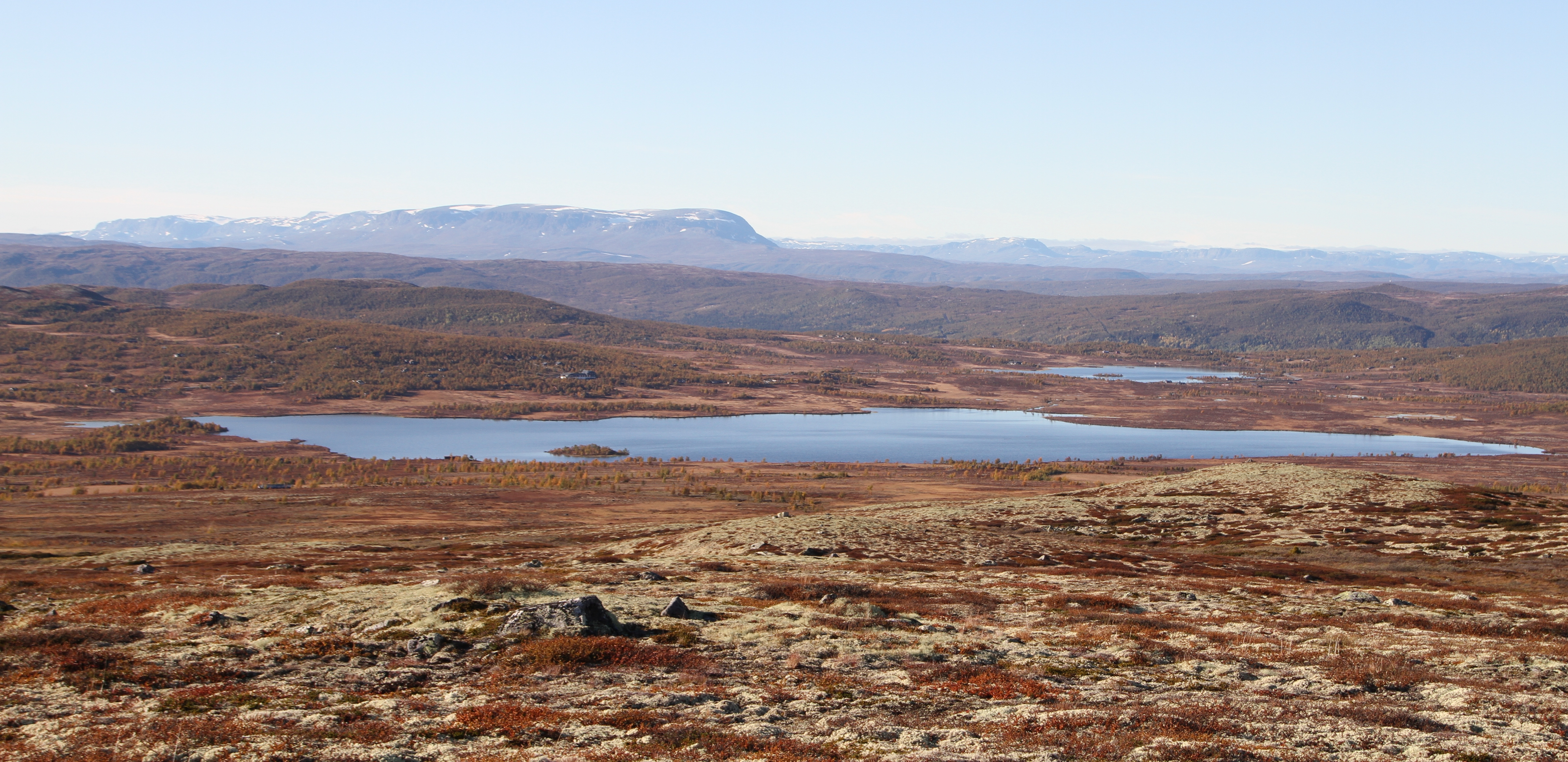 Torsetvatnet (1022 mosl) is a little lake in Nore og Uvdal municipality, Norway. In the background one can see the massive Hallingskarvet mountain massif (1933 mosl)